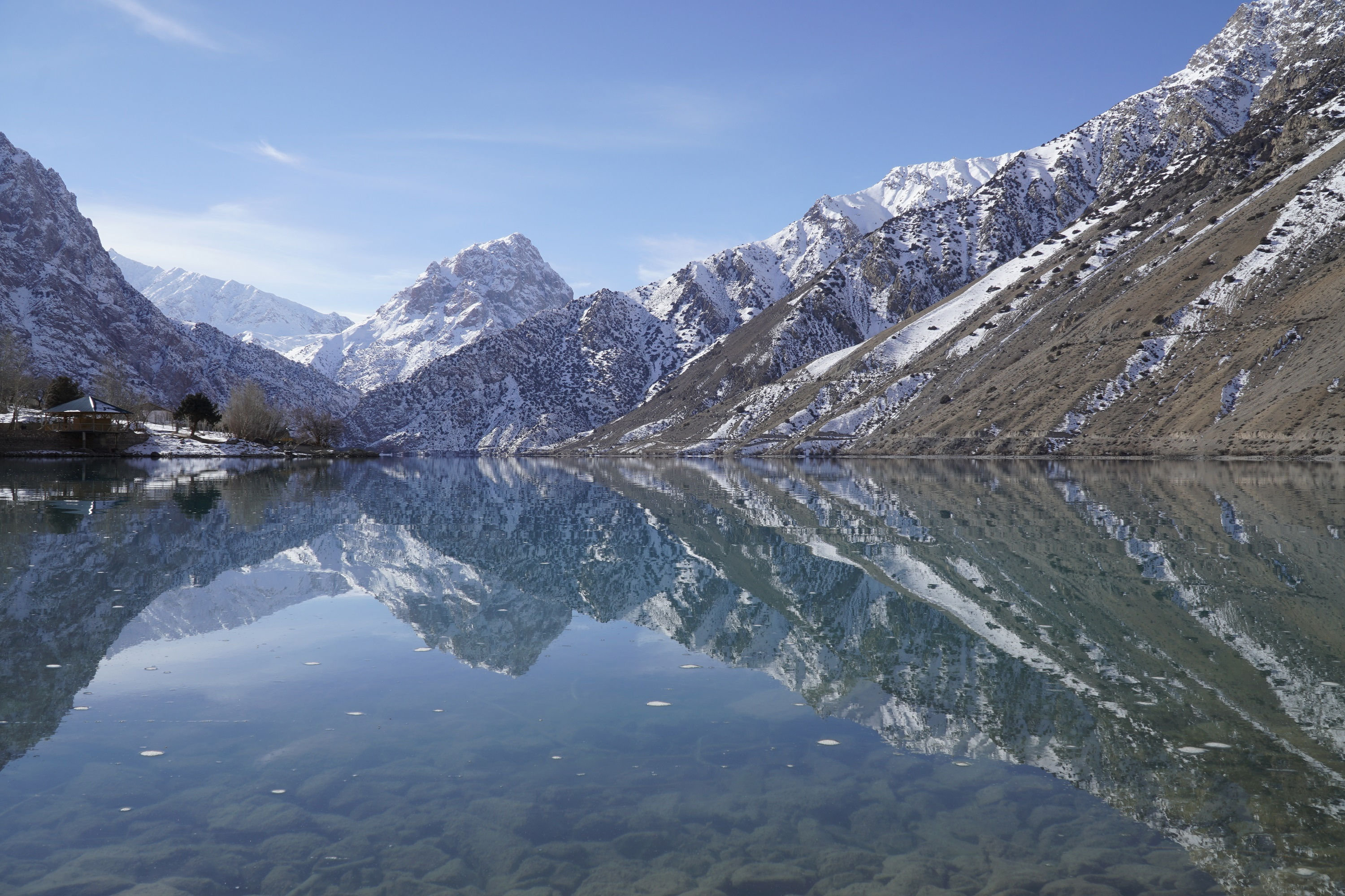 iskenderkul